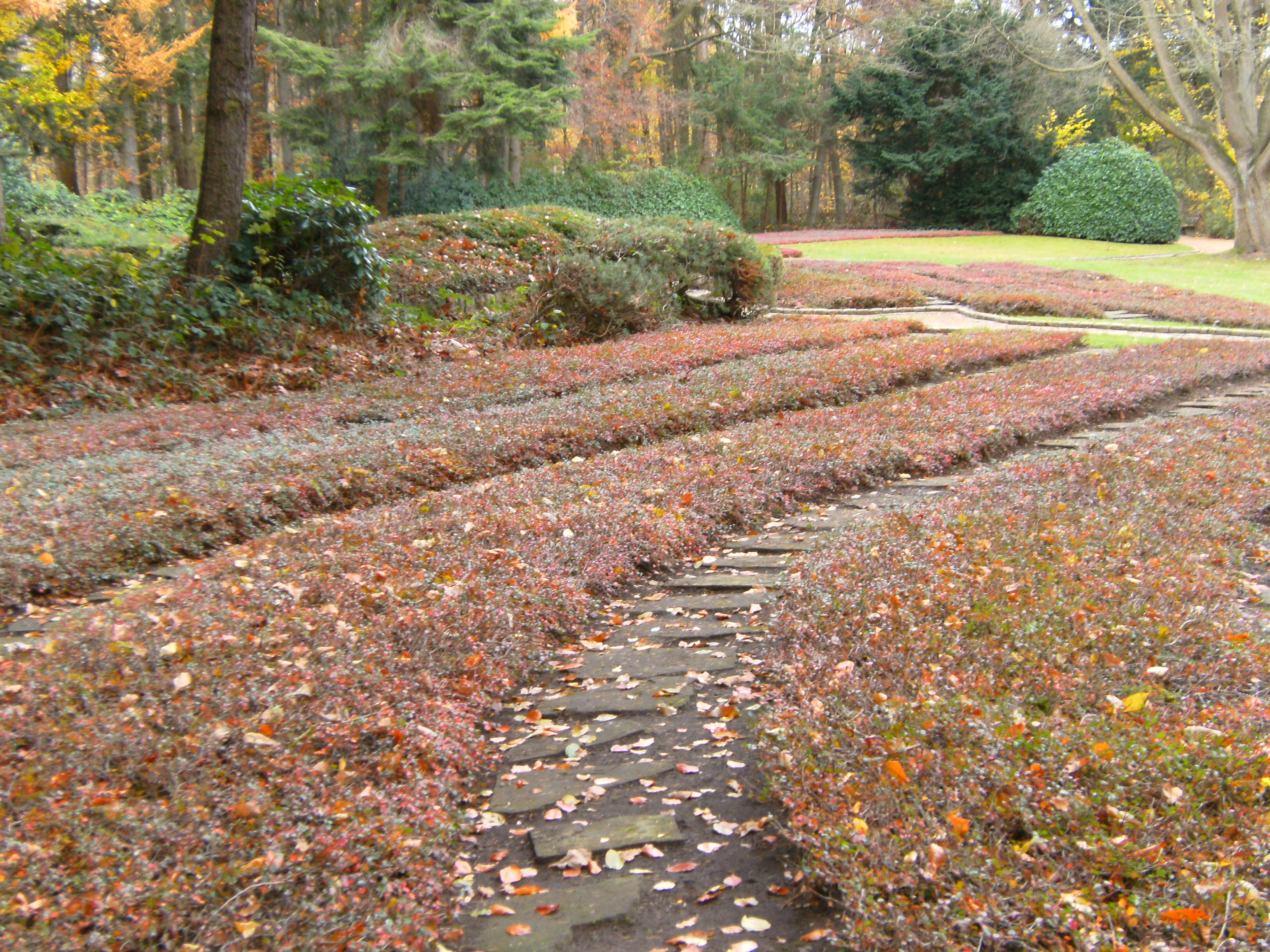 Rows of graves on Cap Arcona cemetery Scharbeutz-Haffkrug (Ehrenfriedhof Cap Arcona in Scharbeutz-Haffkrug).